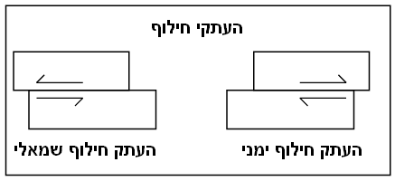 Strike slip fault, Hebrew